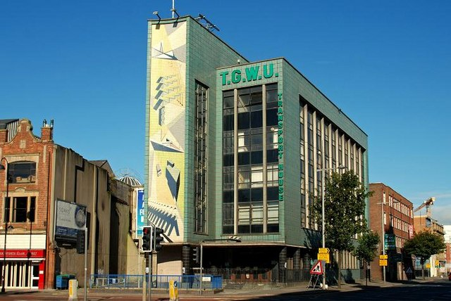 Transport House, Belfast (1). See 446102. A general view of the building, at the corner of High Street and Victoria Street, opposite the Albert Clock. Symbolic of many things but, architecturally, very much a symbol of the fifties with its straight lines, large windows and a style which could have been found (almost) in any post-WWII city. The architect was JJ Brennan. Now vacant. Continue to 1520274.